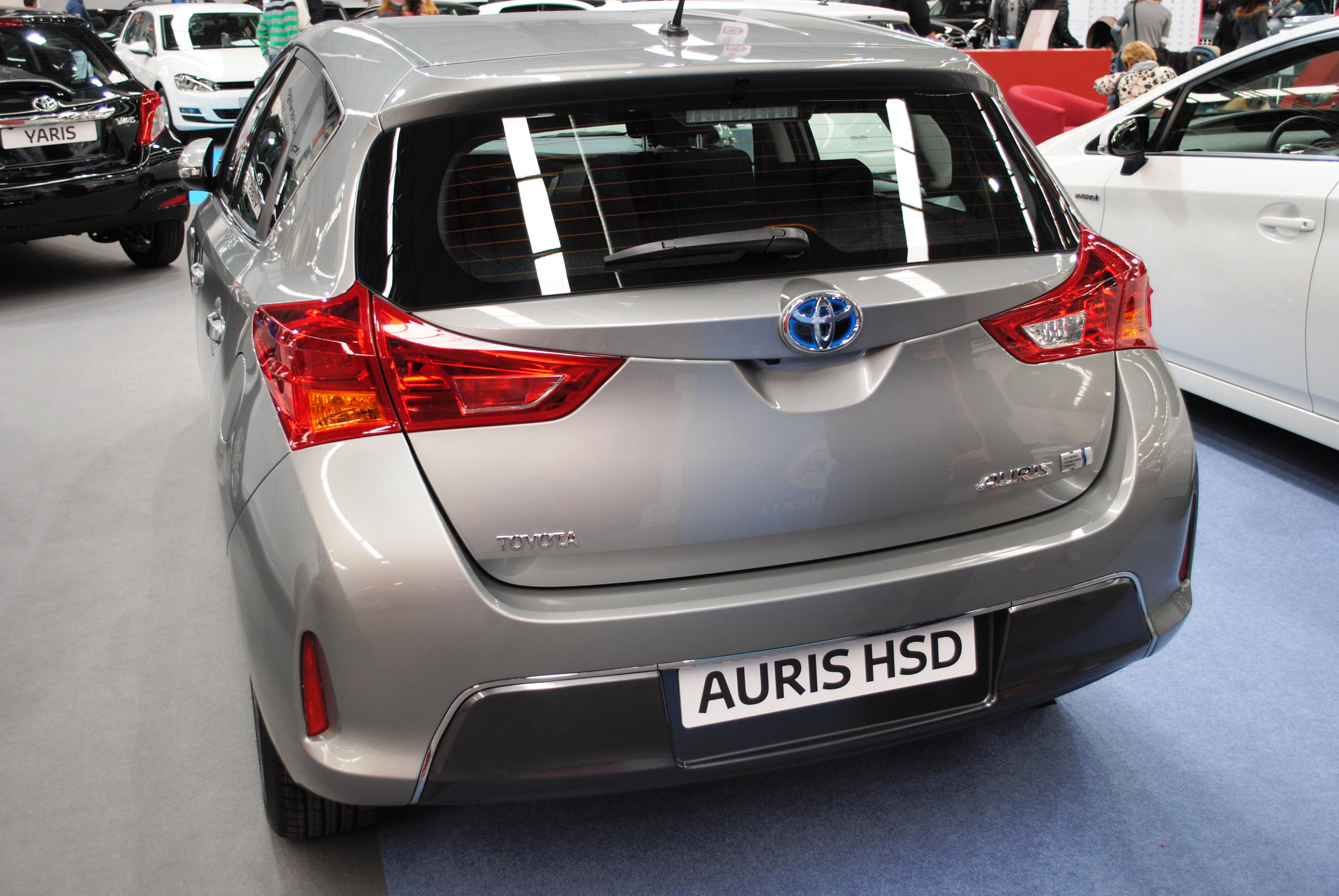 Toyota Auris HSD, IFEVI, 2014.JPG